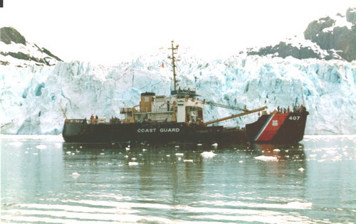 USCG buoy tender Woodrush deployed in northern waters.